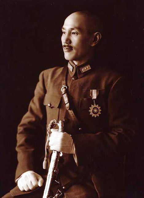 1940 photo of Chiang Kai-shek in full military uniform.Bân-lâm-gú: 1940-nî tshīng kun-ho̍k ê Tsiúnn Kài-tsio̍h. 1940年穿軍服的蔣介石。